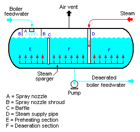 Schematic diagram of a spray-type deaerator